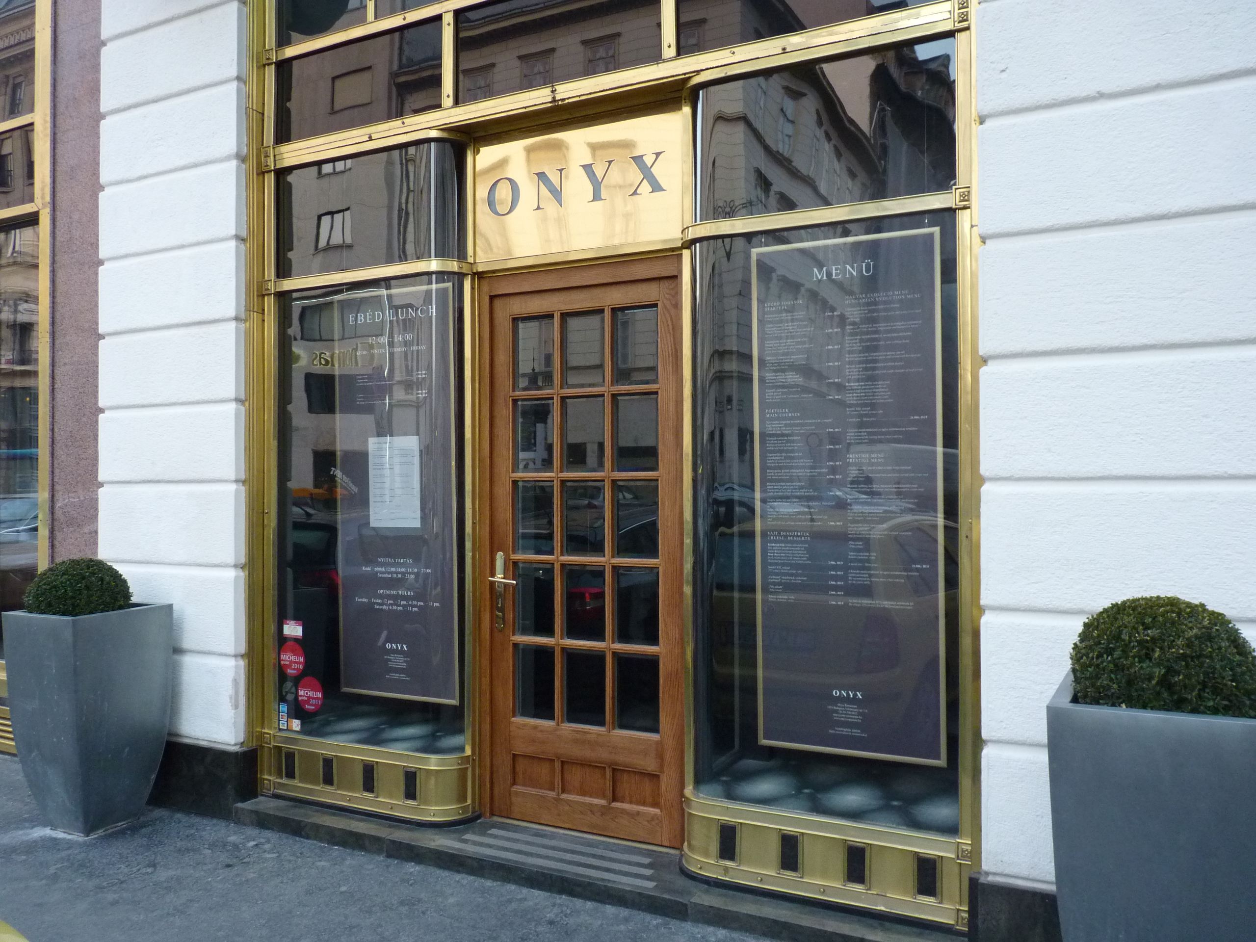 Onyx Restaurant, Budapest